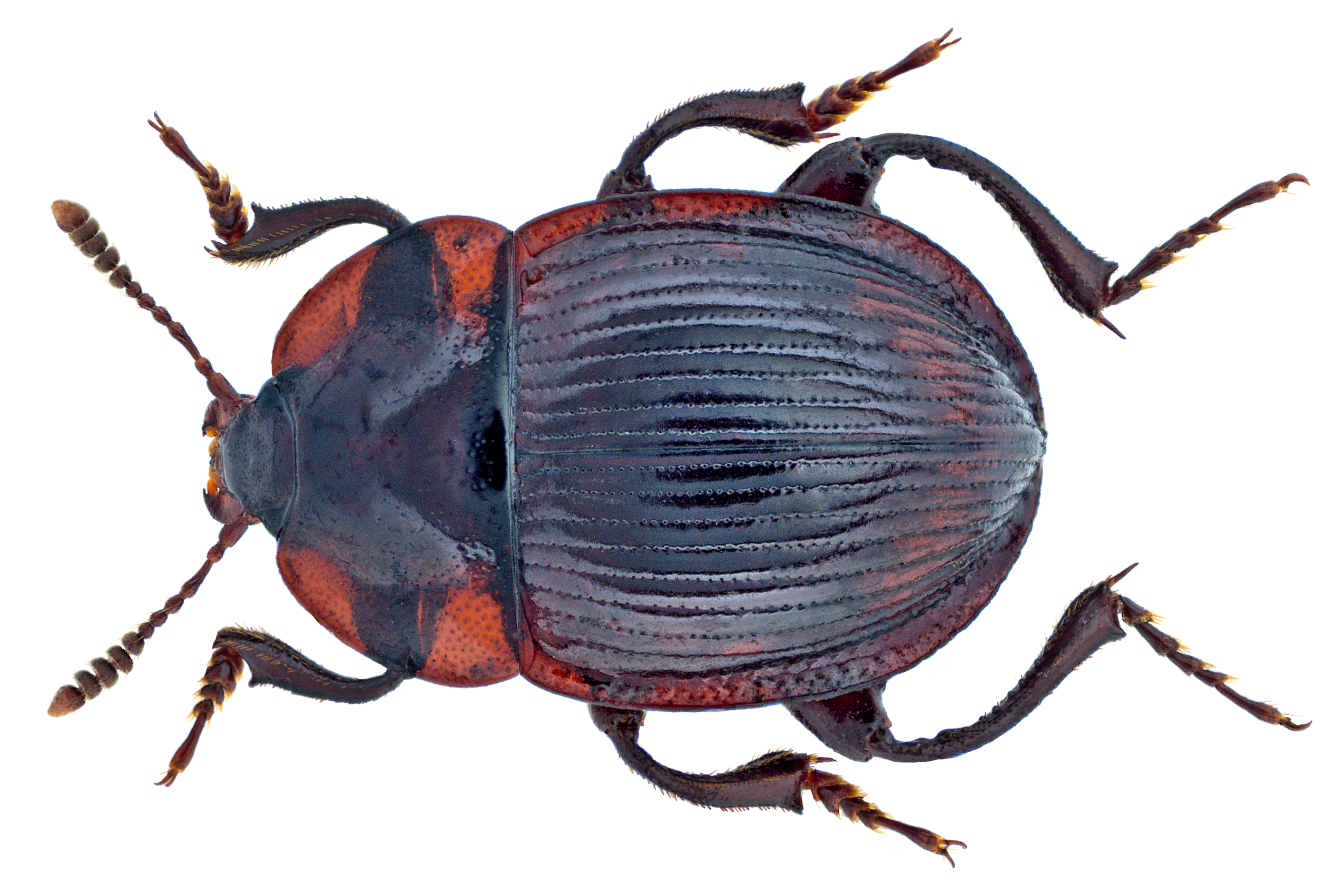 Family: Agyrtidae (Silphidae) Size: 7,5 mm (6,0 to 8,0 mm) Distribution: in the mountains of Europe Ecology: probably lives from snails Location: Germany, Baden-Wuerttemberg, Schwarzwald, Utzenfeld, bait trap leg.det. U.Schmidt, 17.IV.1981 Photo: U.Schmidt, 2014